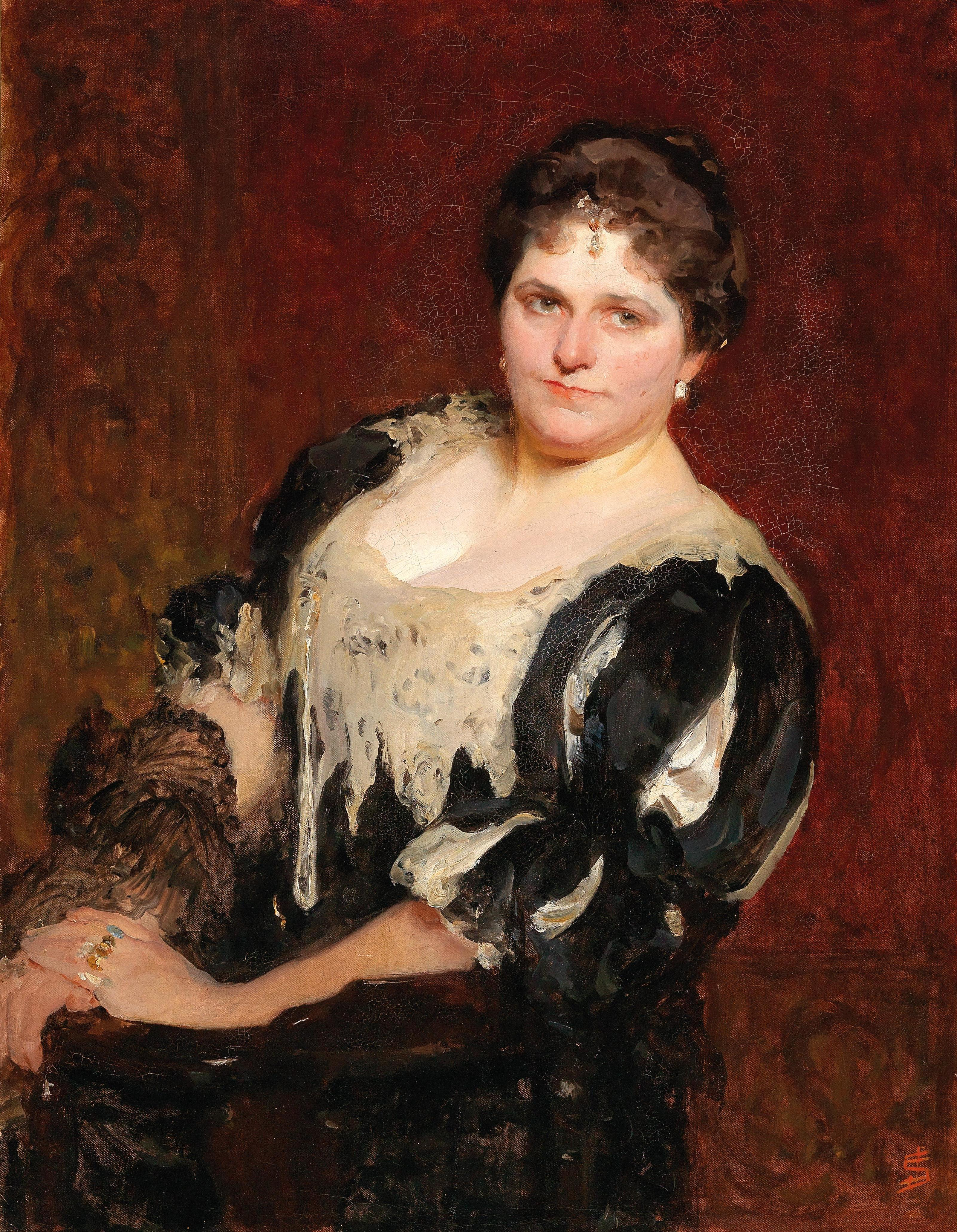 Portrait of Blanche Marchesi de Castrone (1863-1940), a French mezzo-soprano by Solomon Joseph Solomon, oil on canvas, 92 x 71 cm.